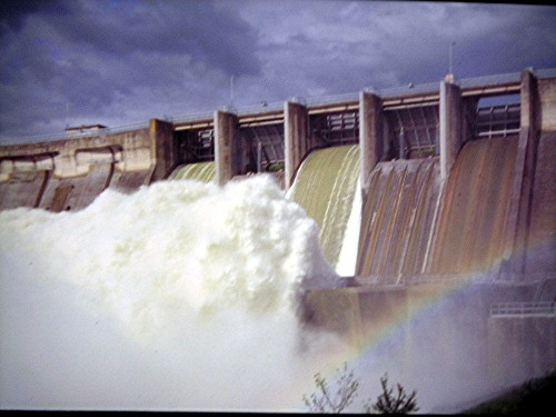 open dam of Corbara, Orvieto, Terni, Umbria, Italy